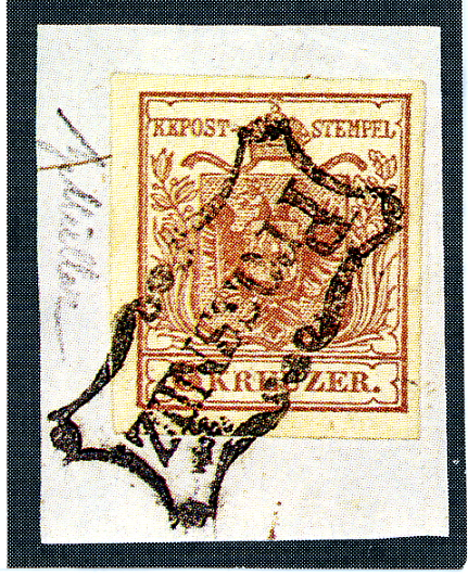 Stamp of Austria KK on fragment, 6 kreuzer issue 1850, frame cancelled PROSSNITZ (Prostějov), Moravia. Mueller type roB (40x12 Points). Sign. Edwin Mueller. Sold 650 SF in 1981.